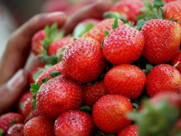 Strawberries for sale at Mahabaleshwar